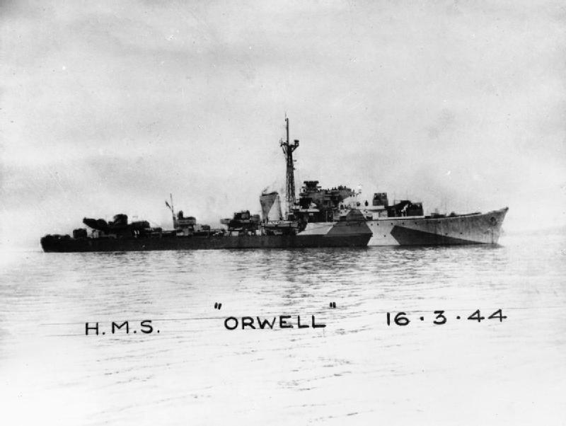 British destroyer HMS ORWELL underway.